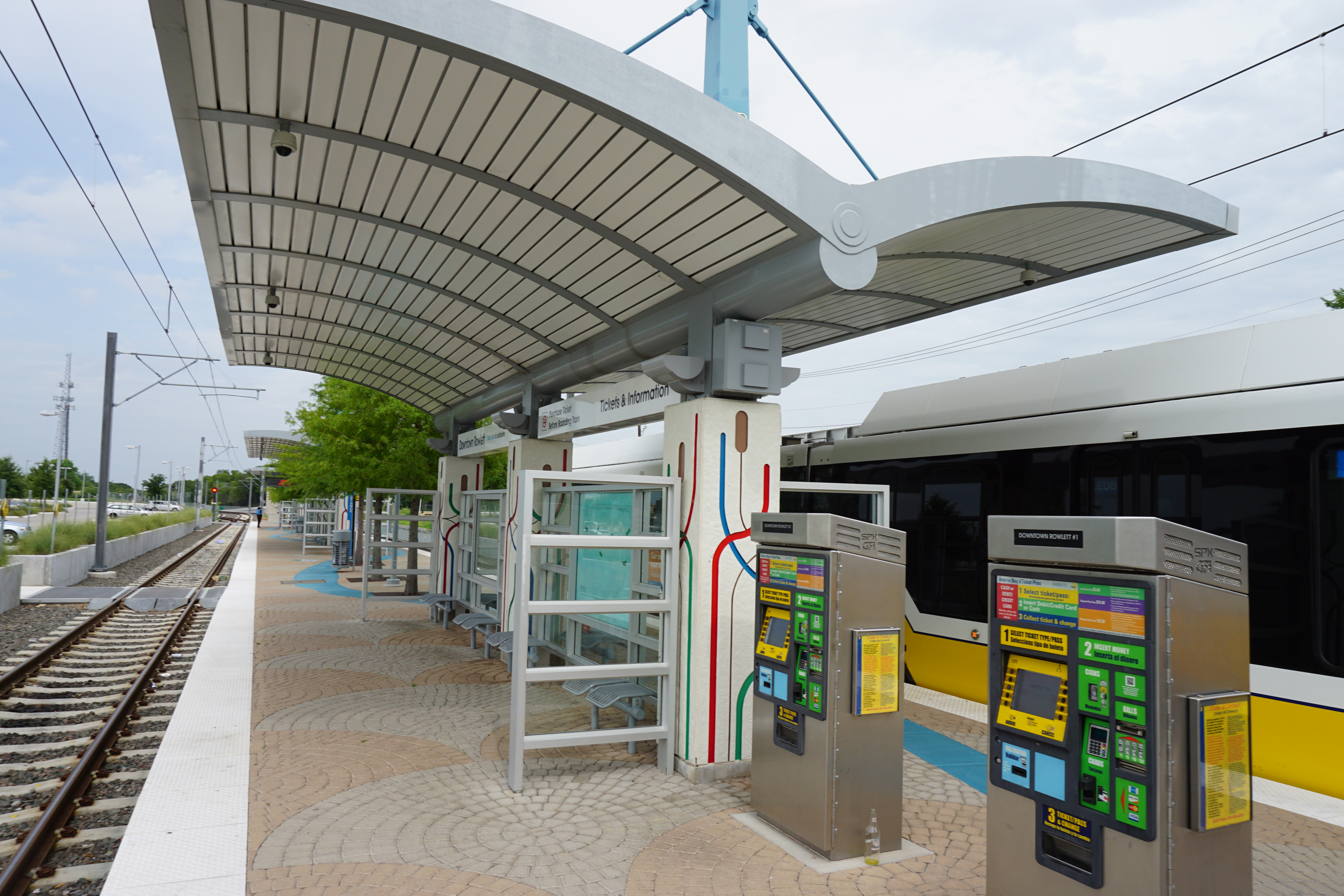 Downtown Rowlett Station in Rowlett, Texas (United States).